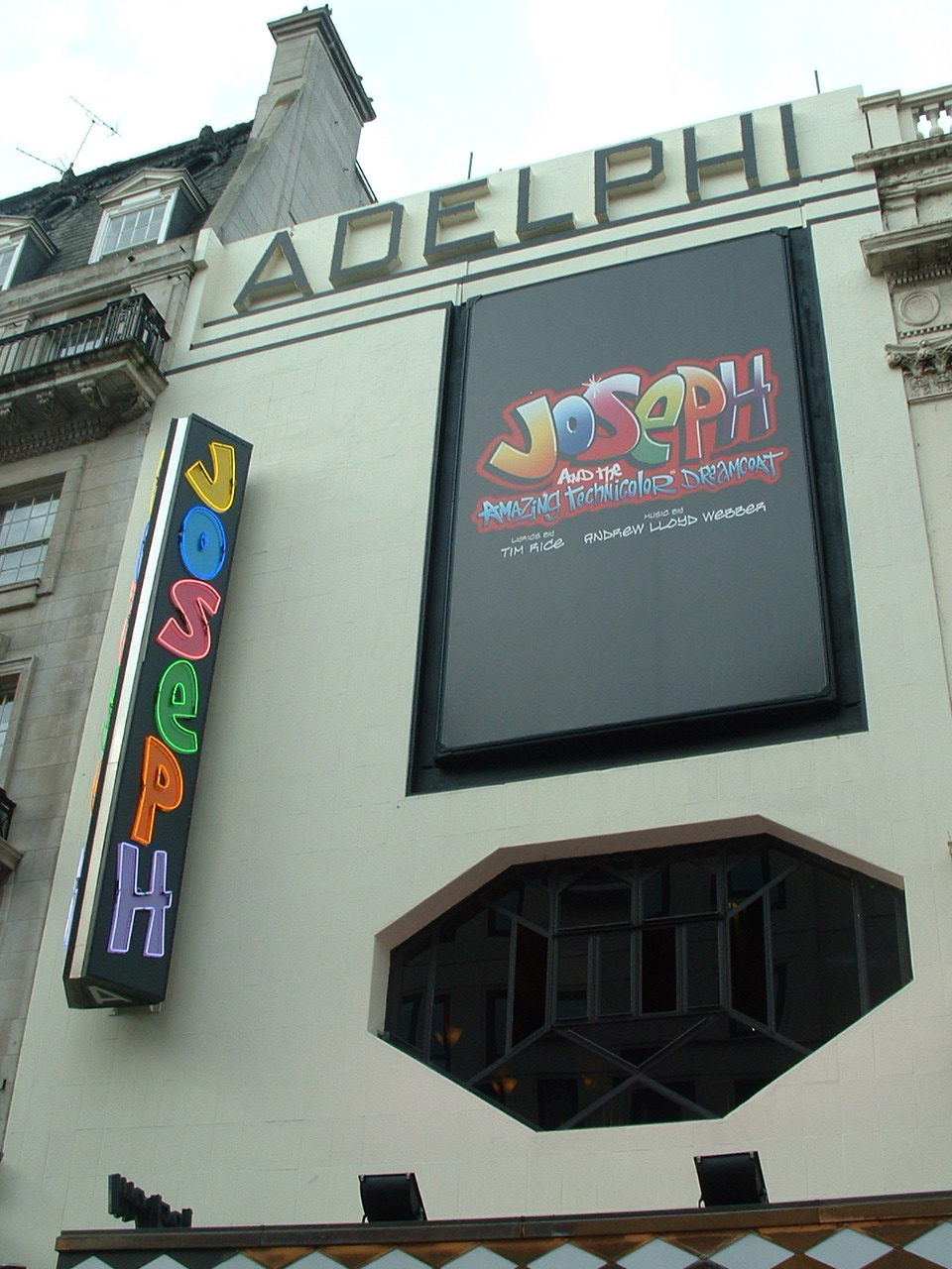 Adelphi Theatre, London, 2007 (showing Joseph)